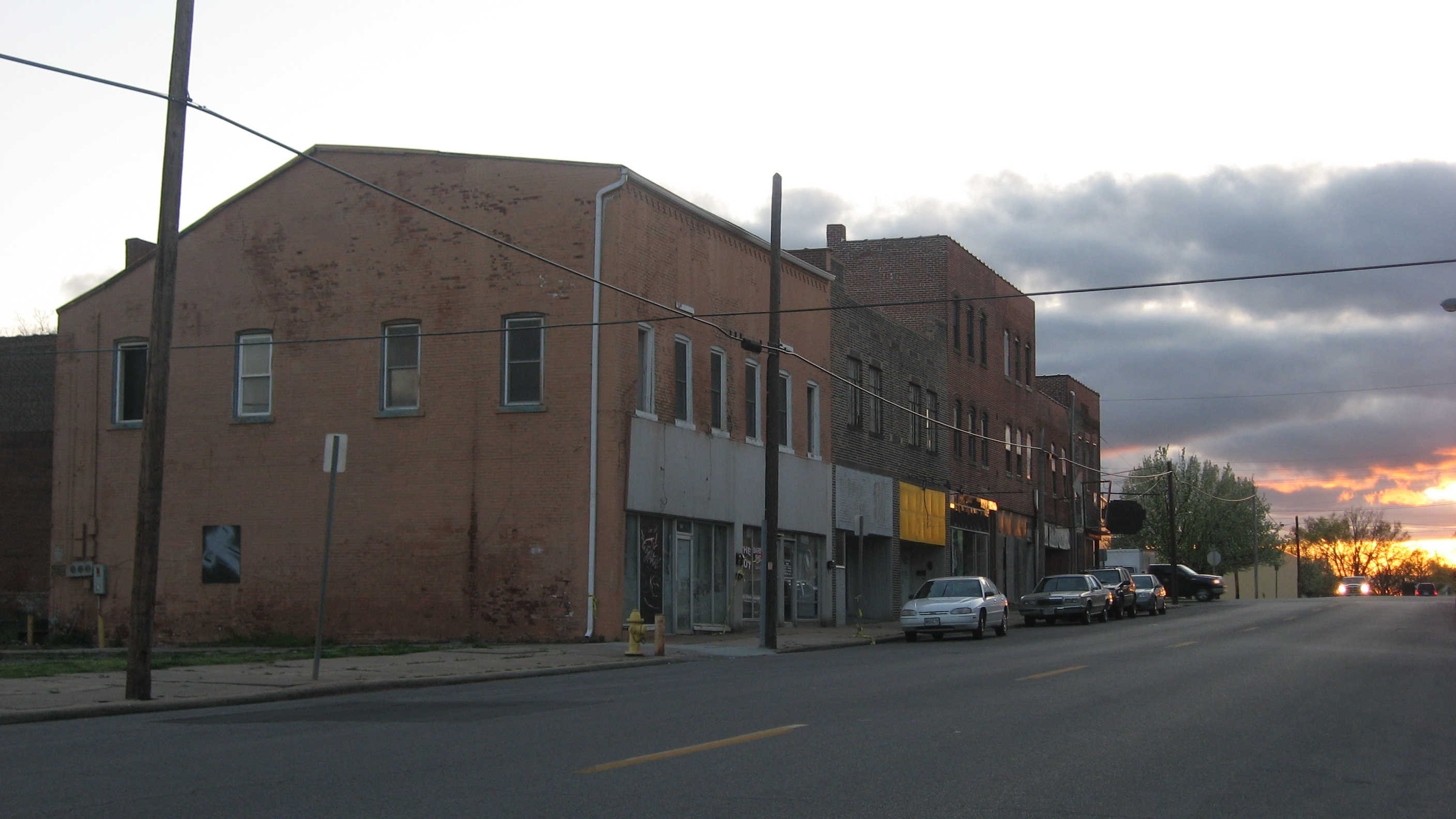 Buildings on the southern side of Good Hope Street east of the Sprigg Street intersection in Cape Girardeau, Missouri, United States. This block is part of the Haarig Commercial Historic District, a historic district that is listed on the National Register of Historic Places.